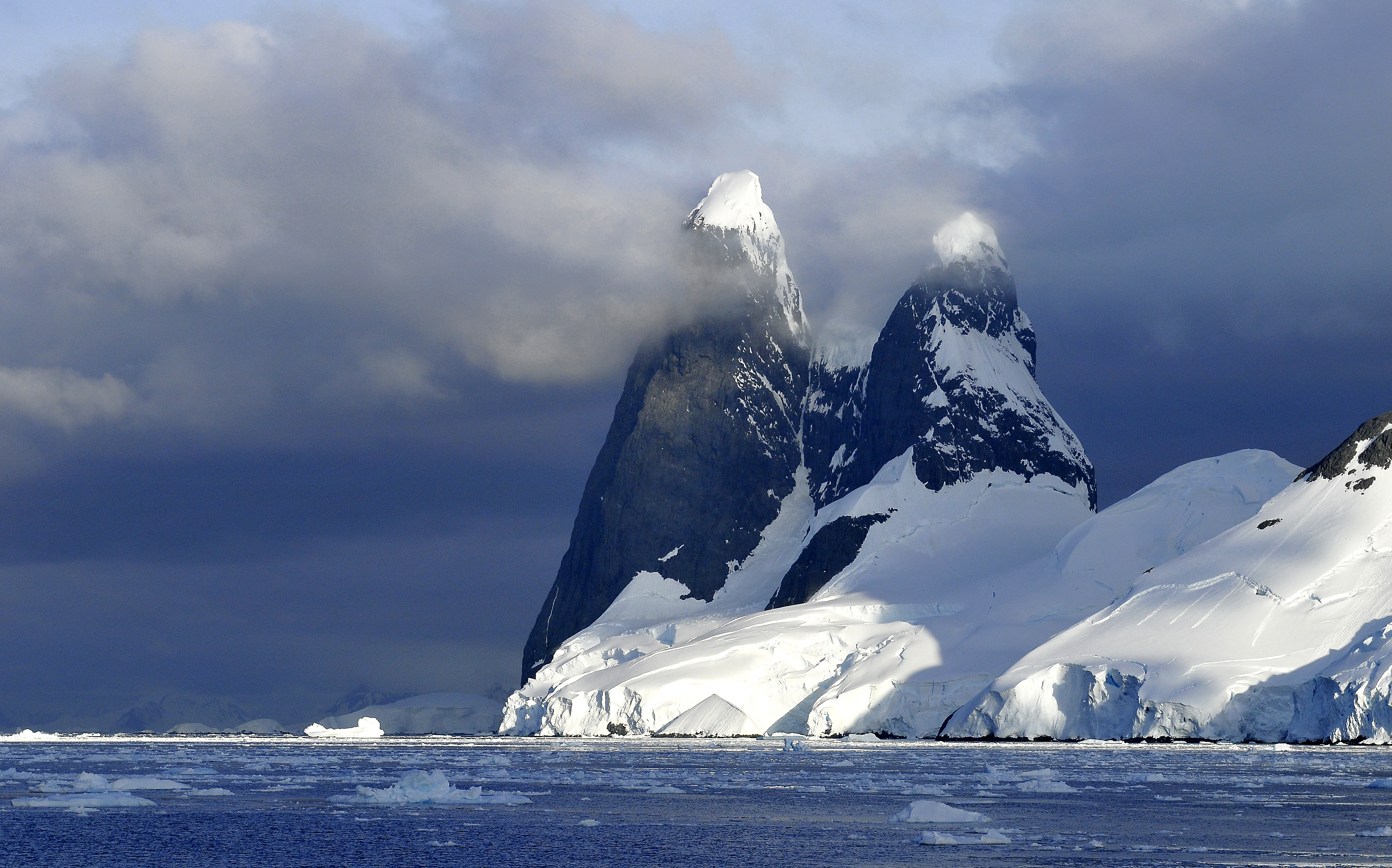 Una Peaks ("Una's Tits"), Cape Renard, Antarctic Peninsula